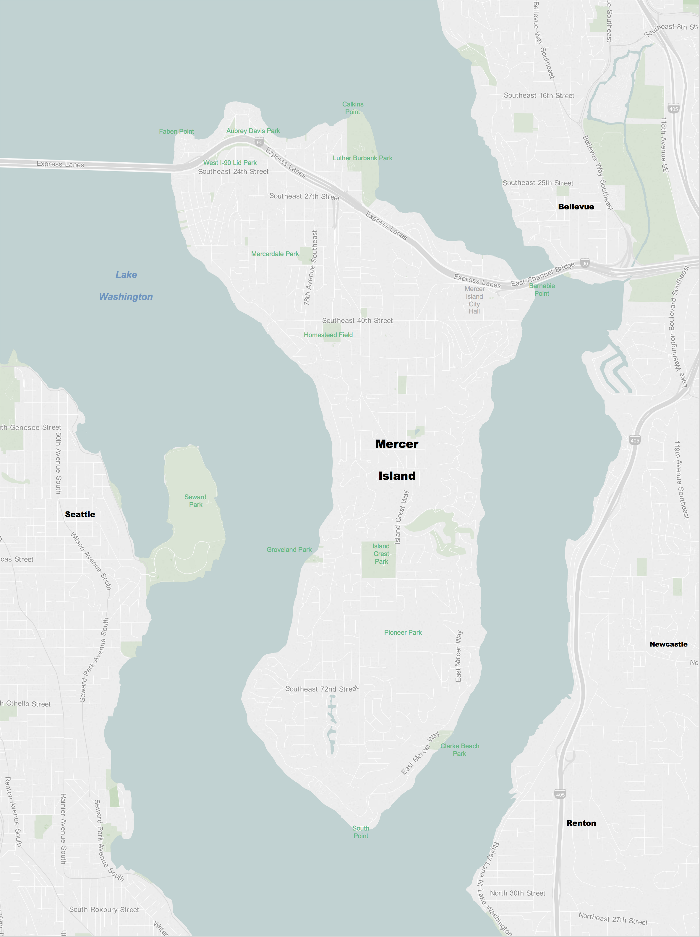 Map of Mercer Island, Washington. Made with Tableau.